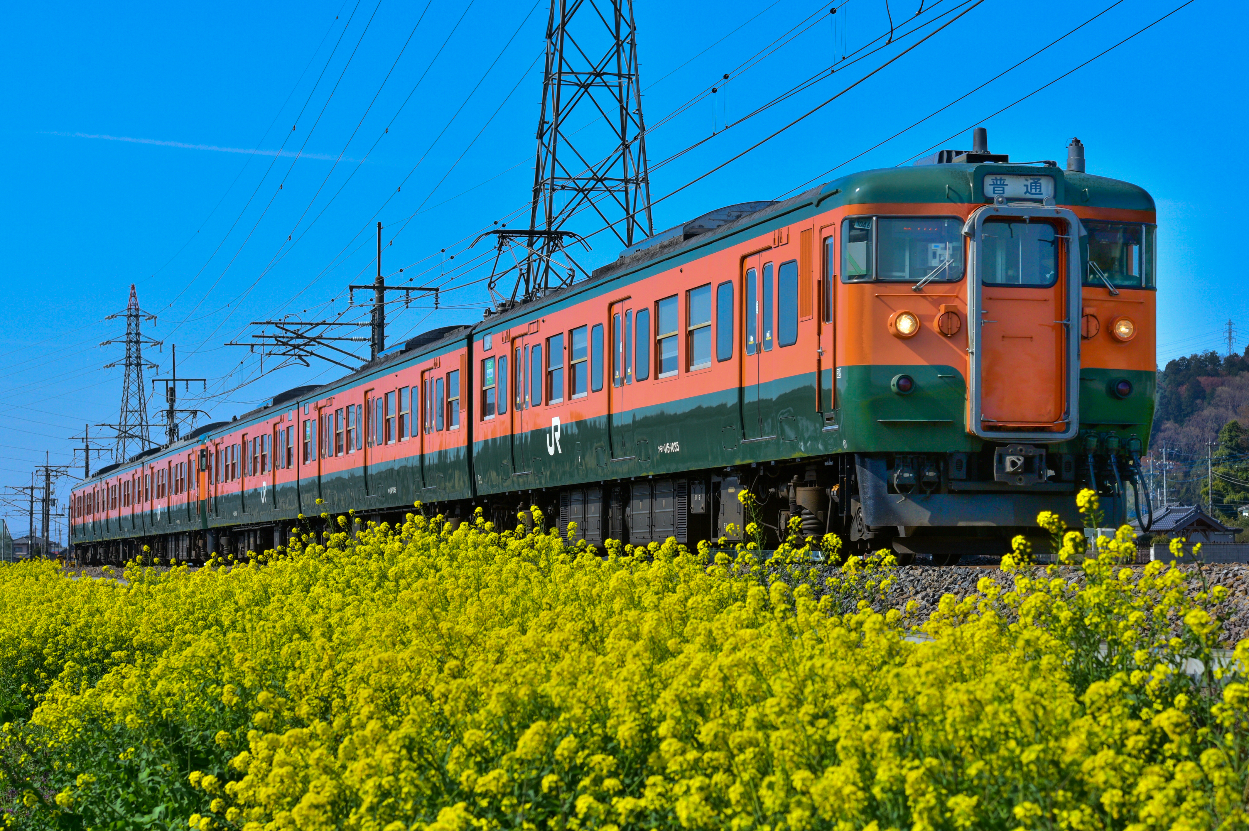 A JR East 115-1000 series 6-car EMU formation on the Ryomo Line